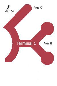 Red colored diagram of the right side of the airport showing the labeled spokes